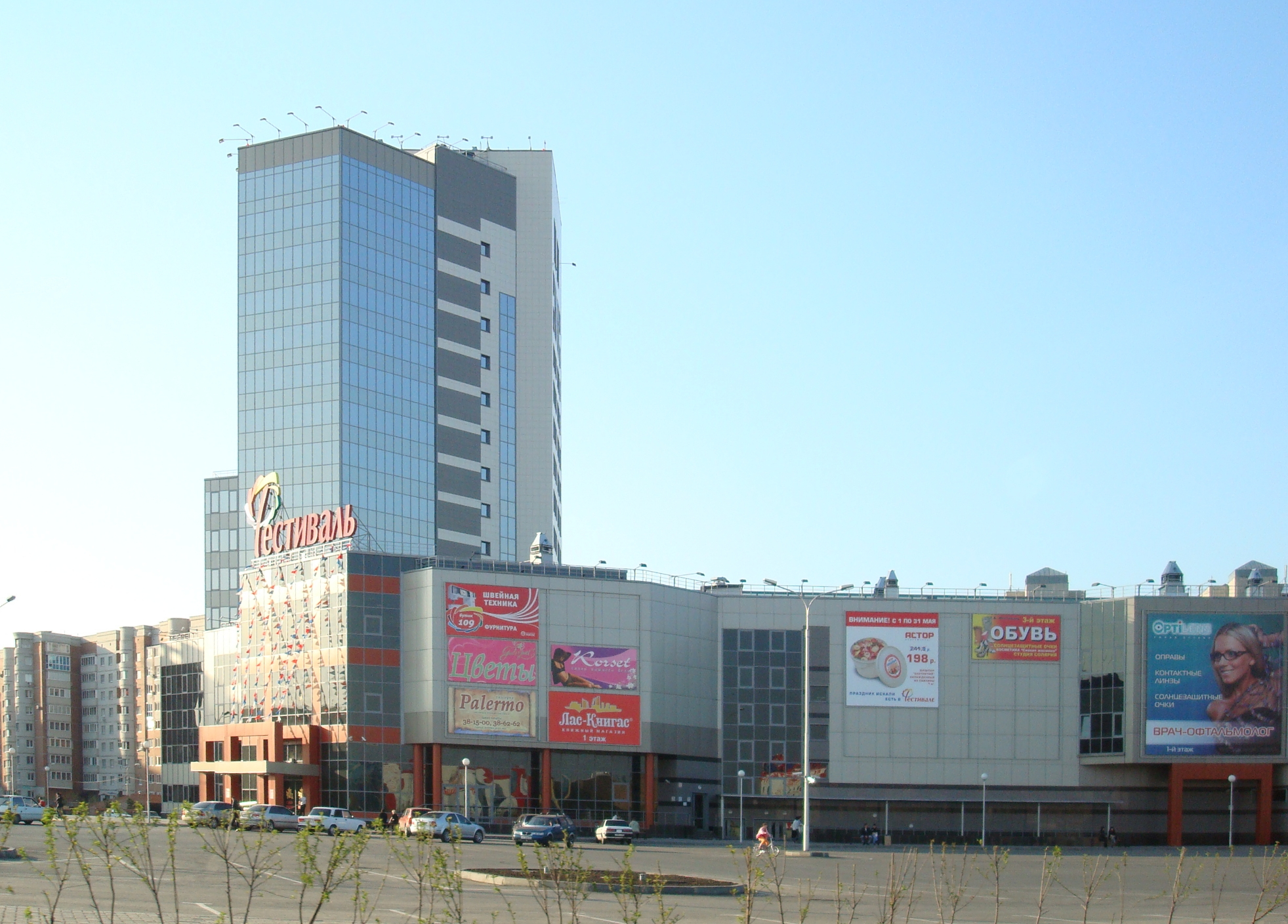 Retail and office center "Festival" on the left bank of the Irtysh River at Omsk, in May 2010.